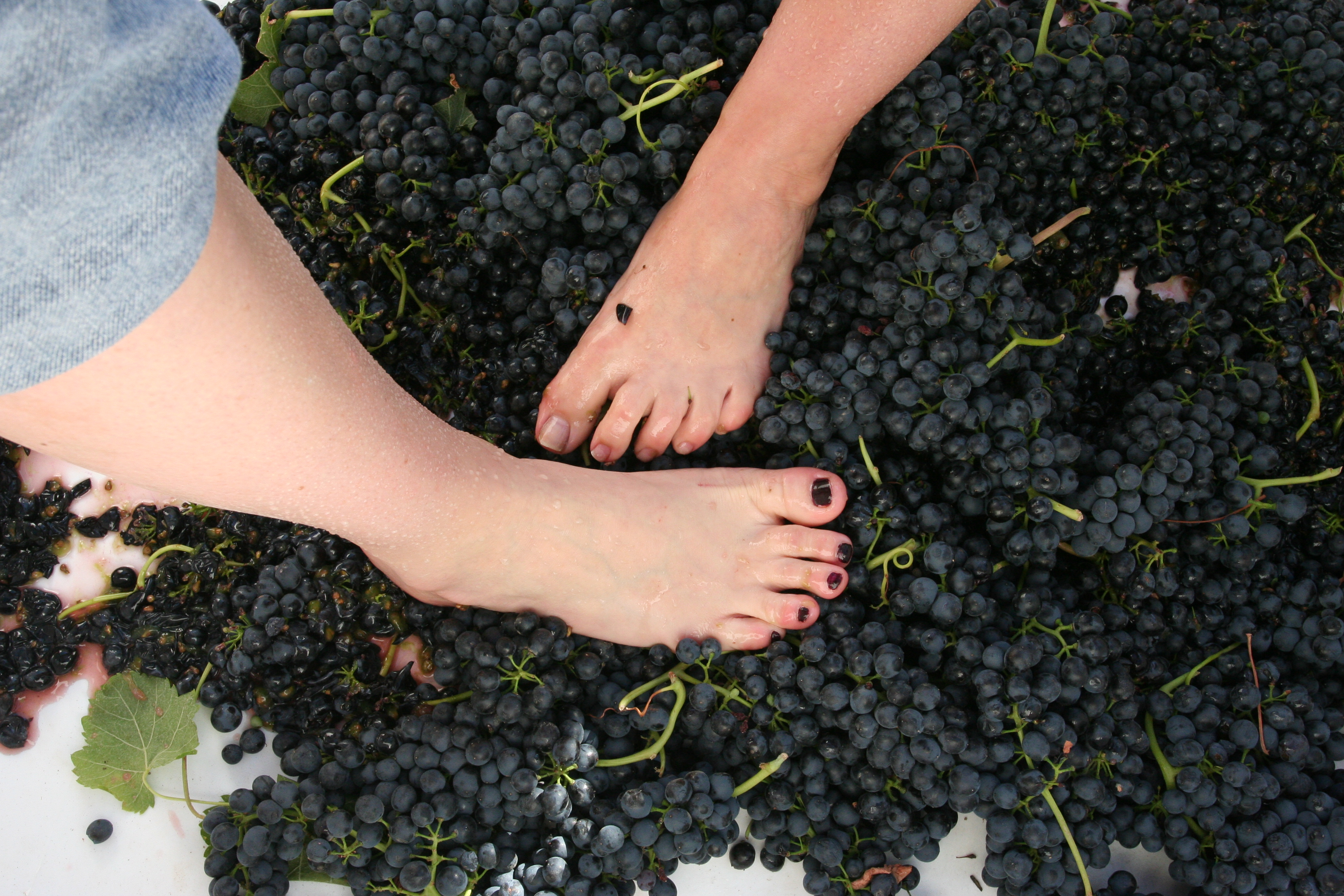 Stomping grapes to crush them as part of the winemaking process. Photo taken at Airfield Estates in Prosser, Washington.